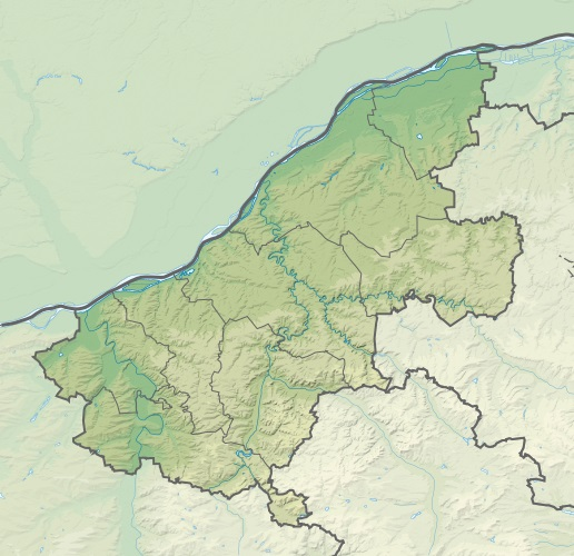 Relief location map Ruse Province, Bulgaria. Geographic limits of the map